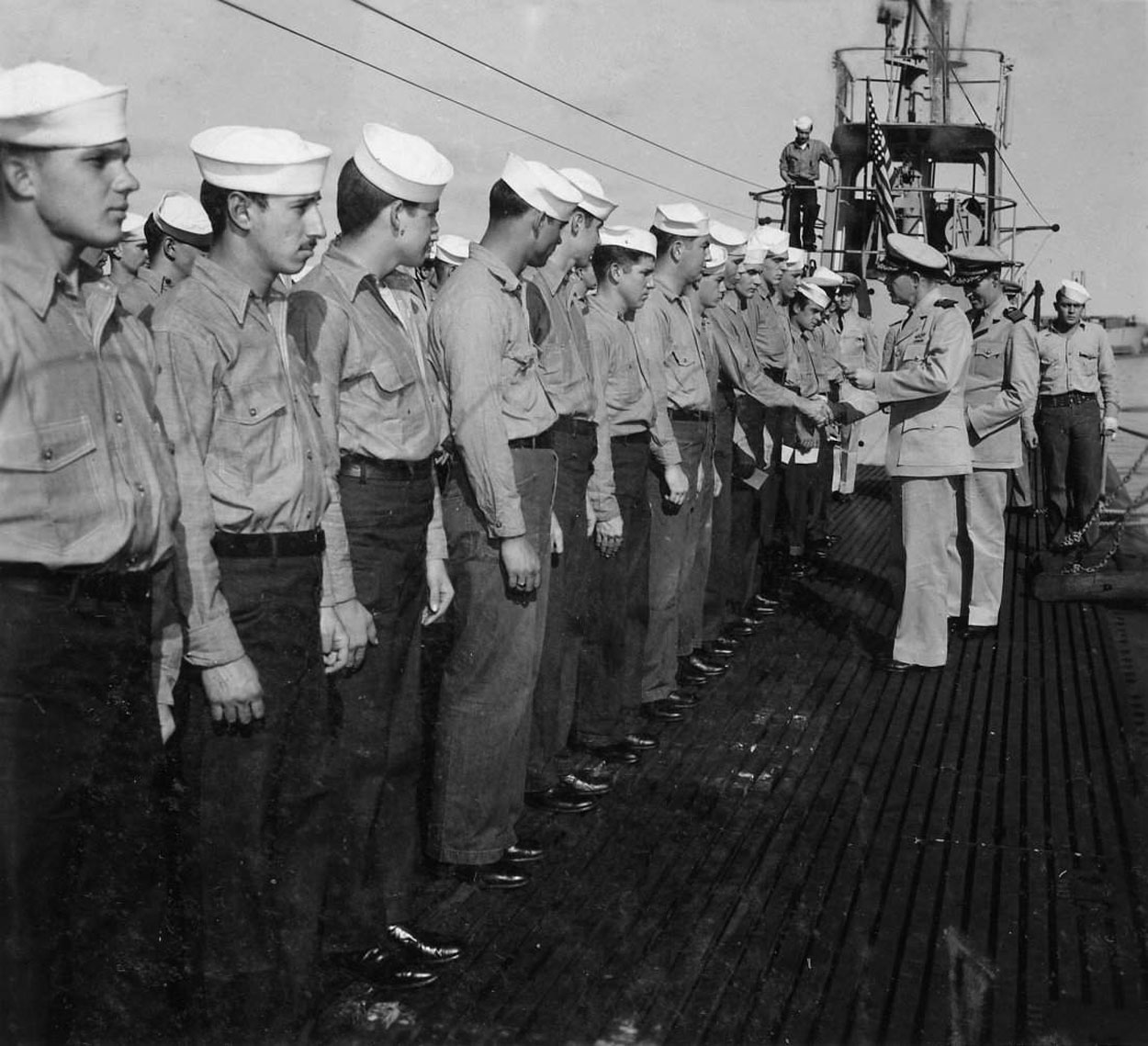 USS Rasher (SS-269) crew receiving combat ribbons in Fremantle, July 1944, following their 4th war patrol.